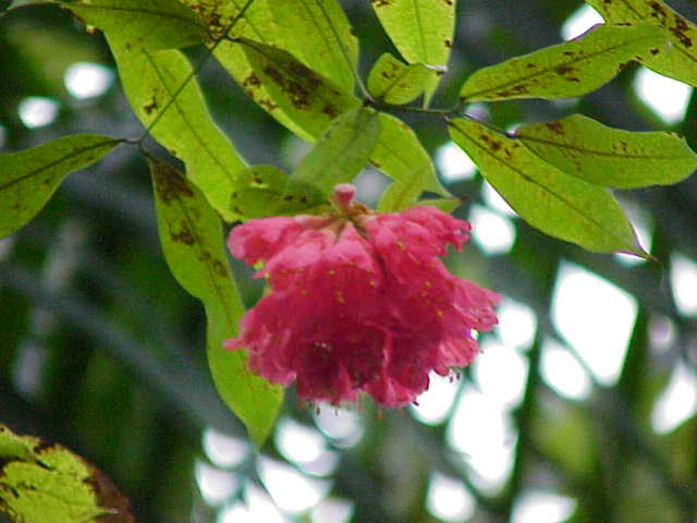 Species: Brownea ariza Family: Caesalpiniaceae Image No. 1